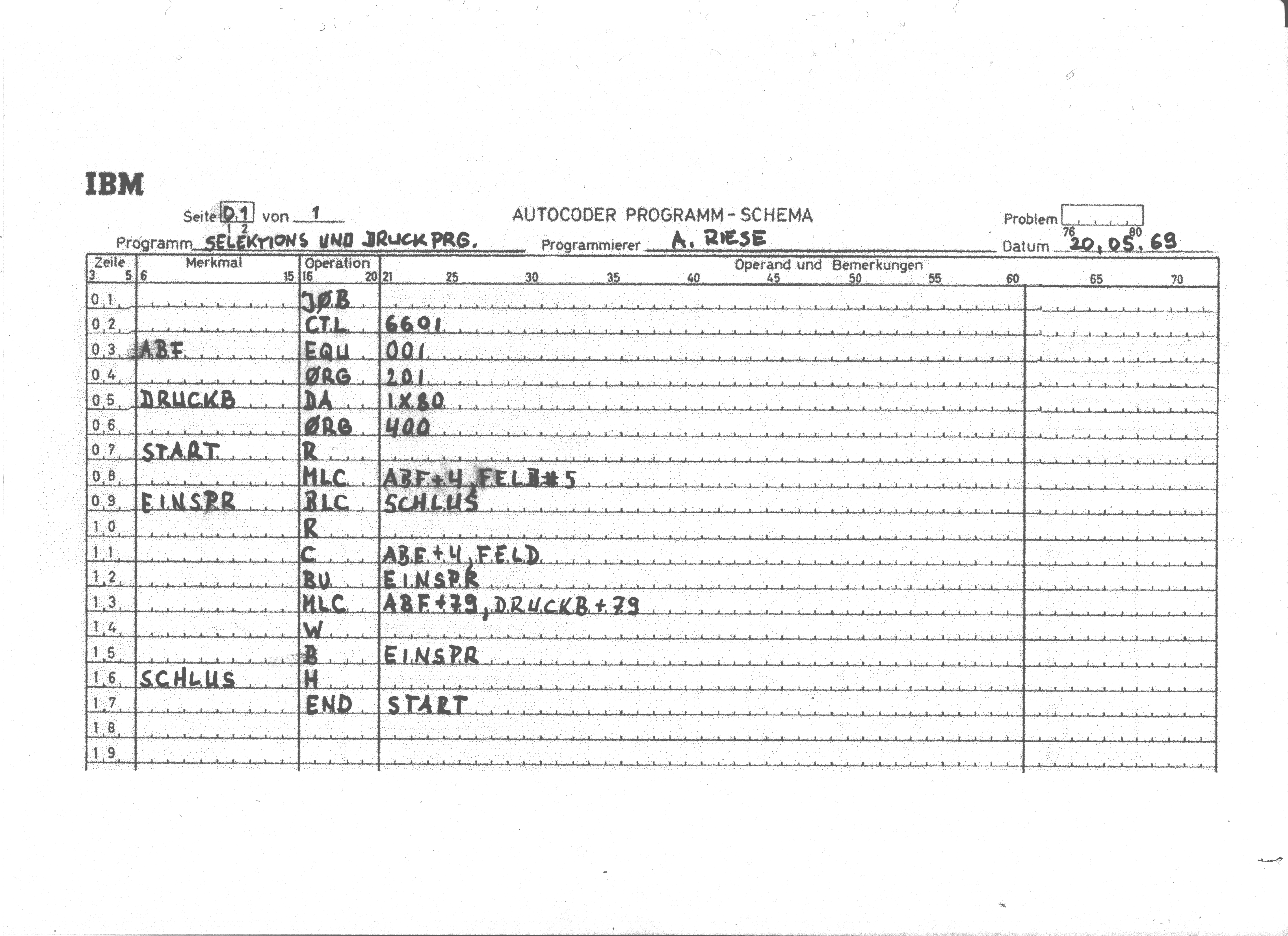 IBM 1401/1460 autocoder program scheme, selection and printing program "SELECT"